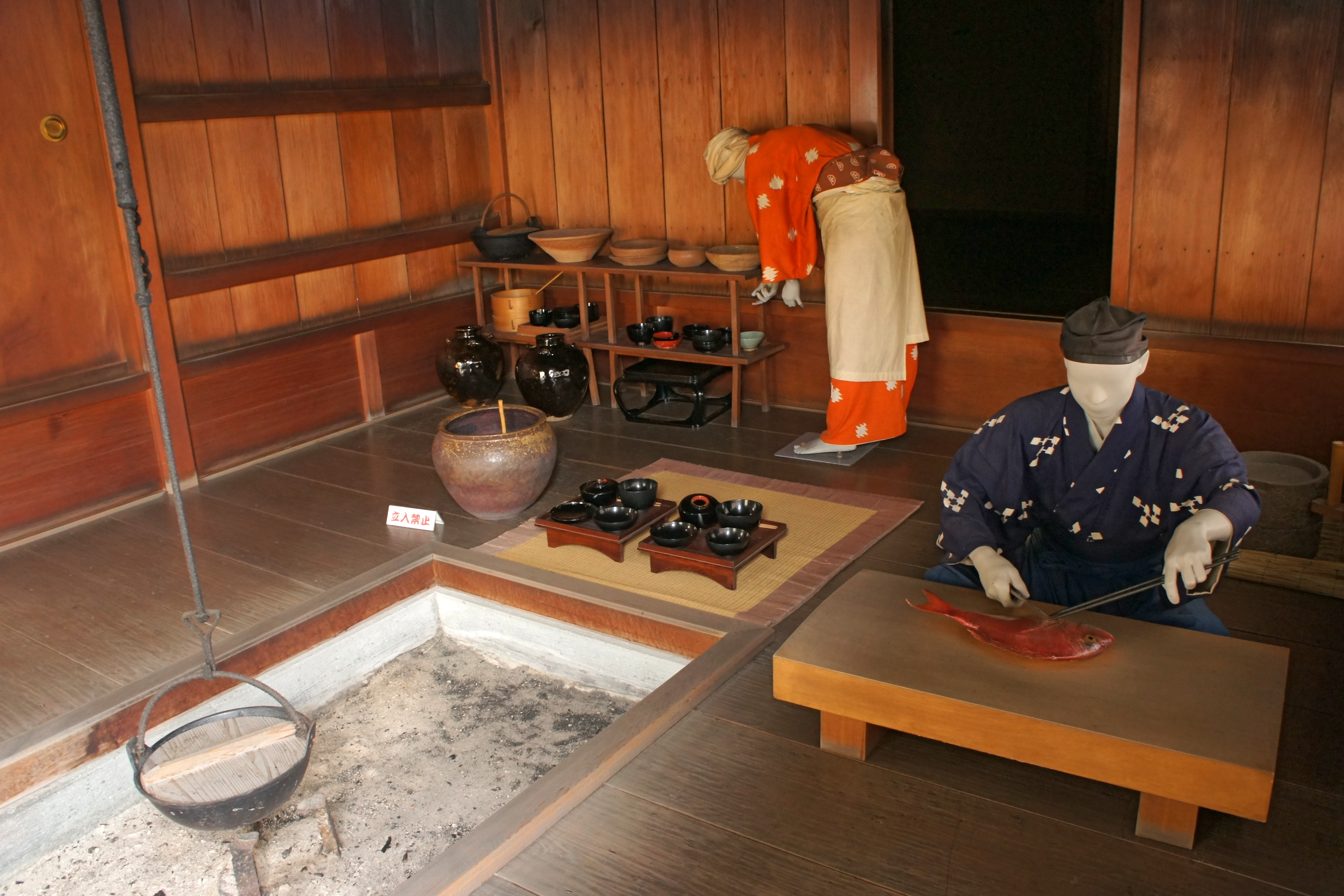 Fukugen-machinami of Ichijōdani Asakura Family Historic Ruins in Fukui, Fukui prefecture, Japan.